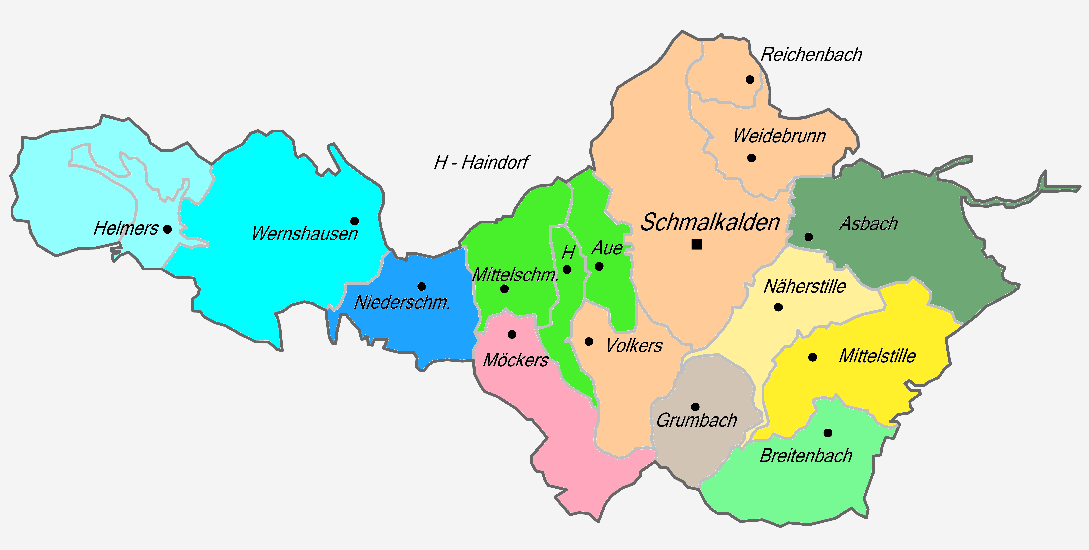 District-Maps of Schmalkalden